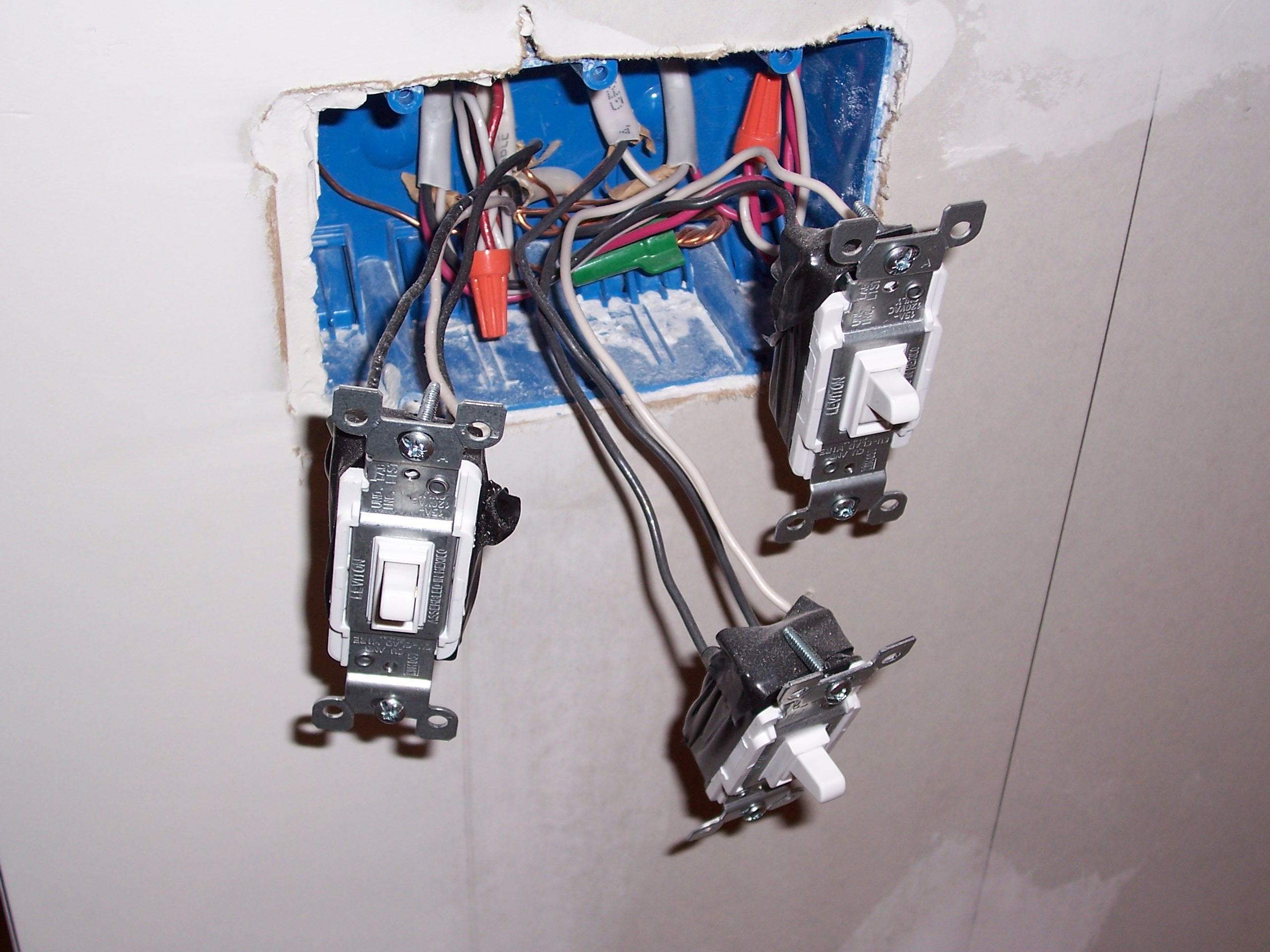 Amateur wall-switch installation exhibiting multiple violations of National Electrical Code (US) creating fire and shock hazards